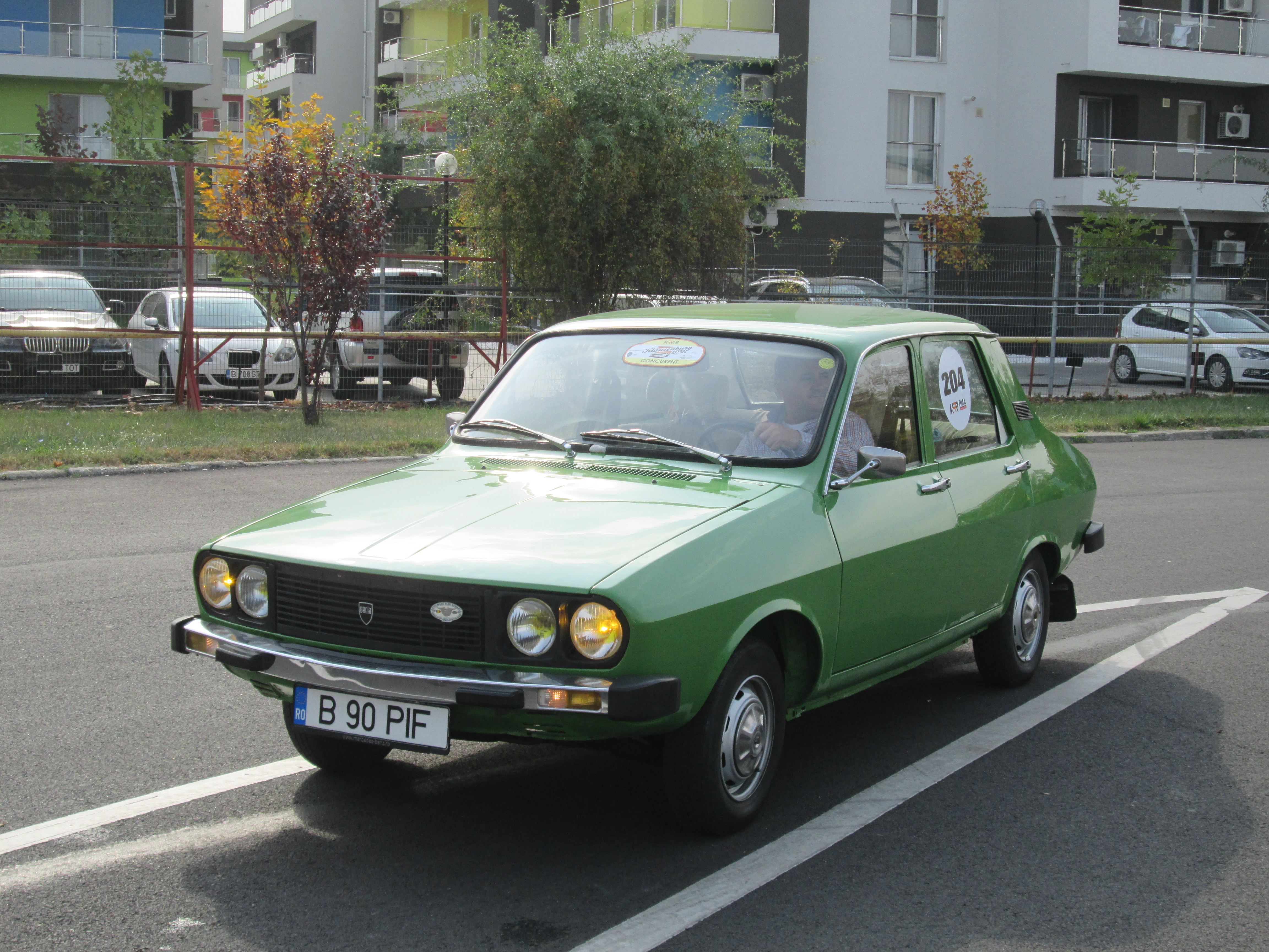 1982 Dacia 1310 (GDR/East Germany export model) at the Autumn Retroparade, 2018, Bucharest